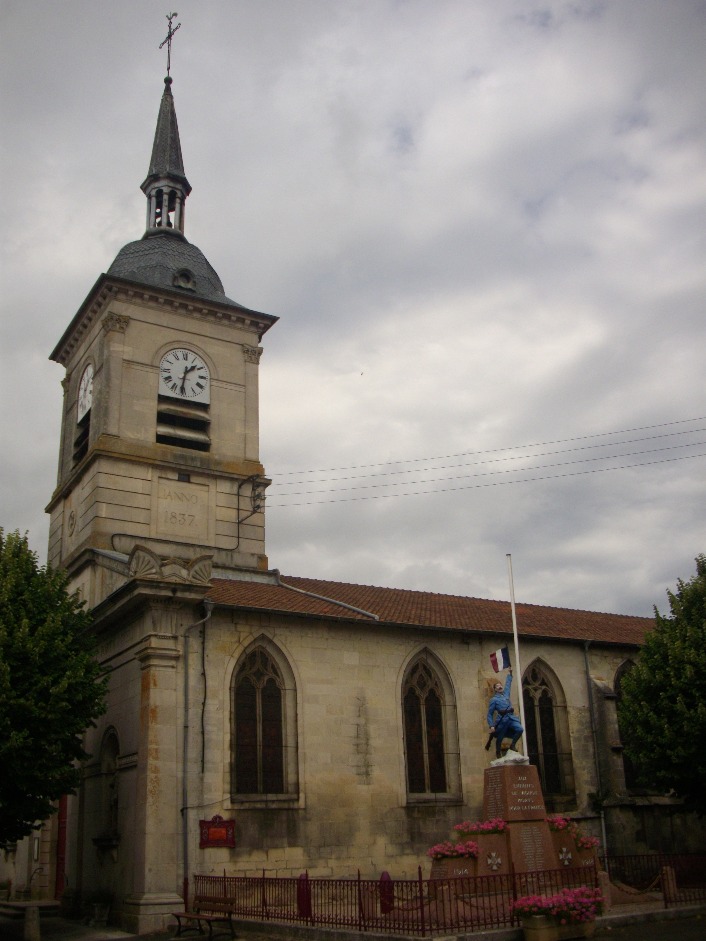 Saint Remigius church of Vignot (Meuse, France) and war memorial